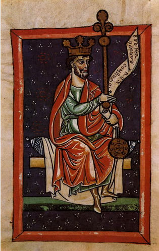 Ferdinand I of León